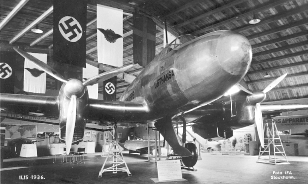 World fair ILIS 1936 in Stockholm. German aircraft in the hangar used as exhibition hall at the Lindarängen airport.